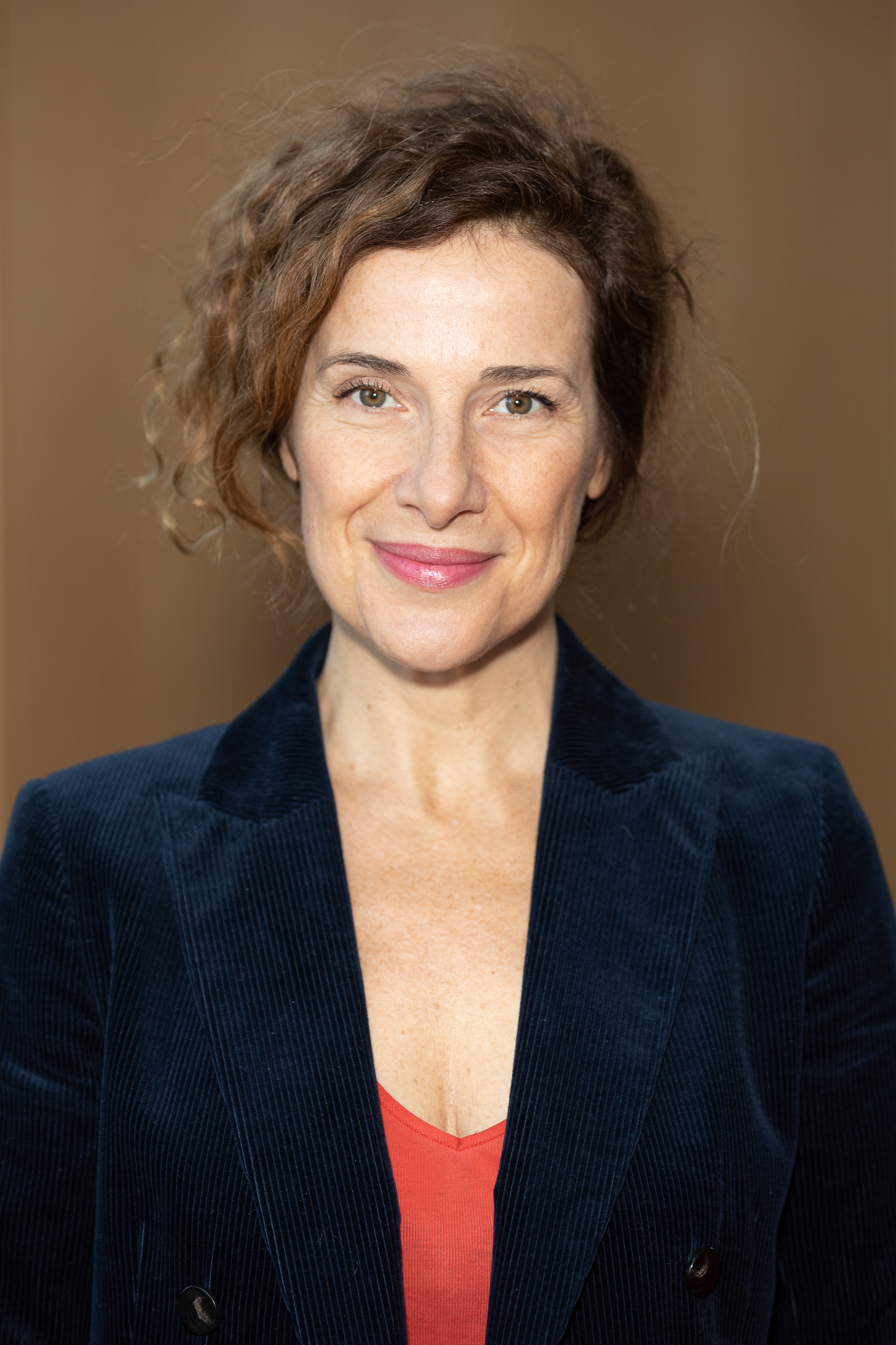 Clelia Sarto at the Hessian reception during the Berlinale 2019